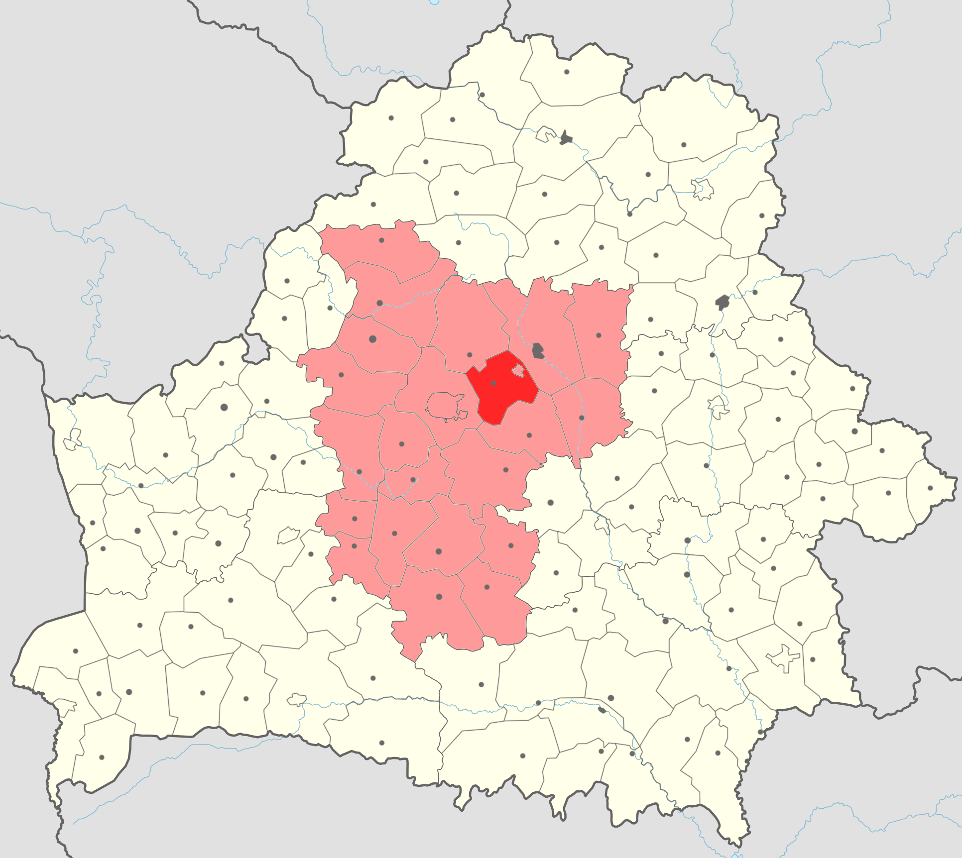 Map of Smaliavichy rayon (in red) with Minsk voblast' (in light red) on the map of Belarus.